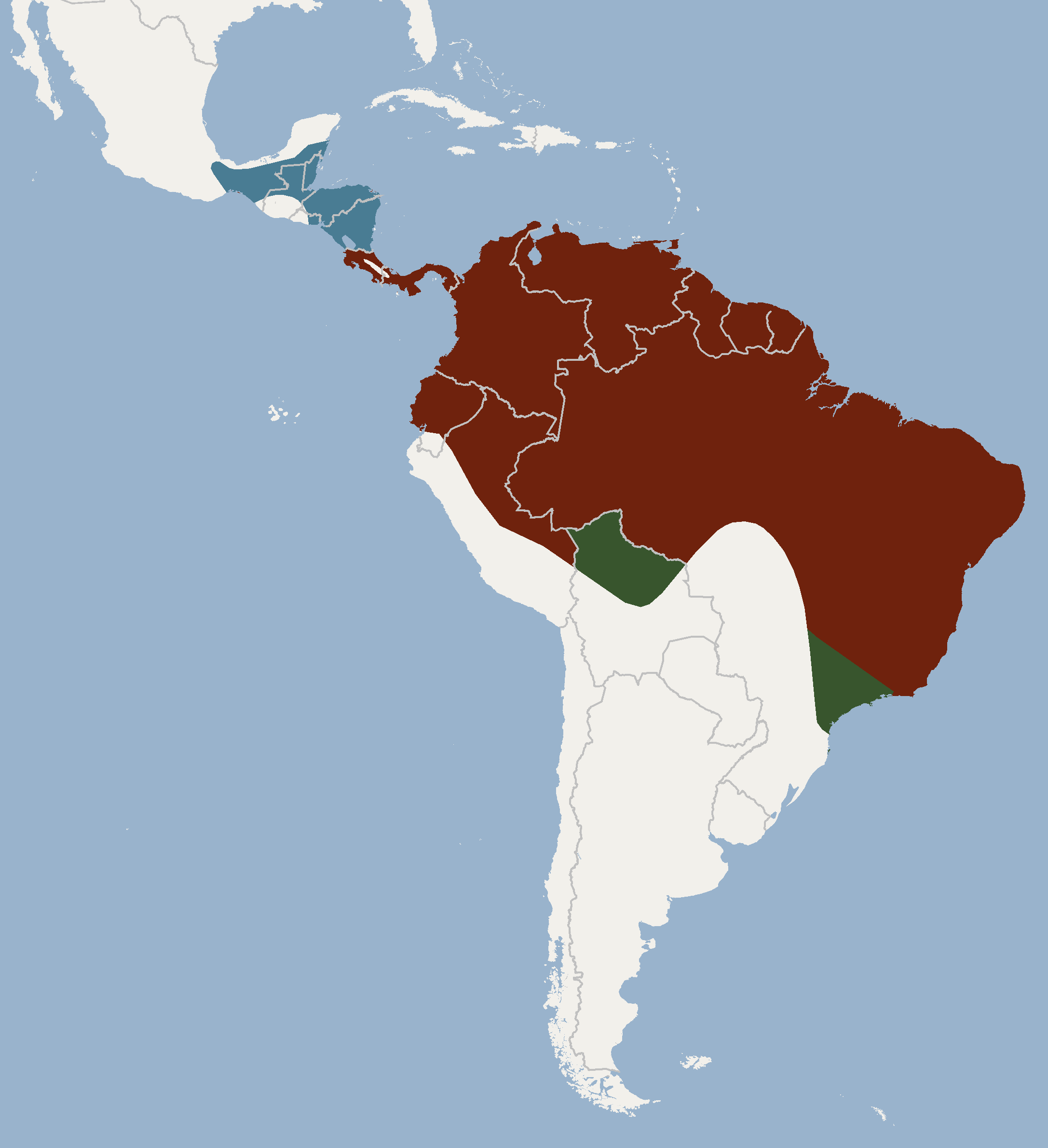 Geographical distribution of Trachops cirrhosus according to Cramer, Willing & Jones, 2001, Gardner, 2008 and Reid, 2009 T.c.cirrhosus T.c.ehrhardti T.c.coffini